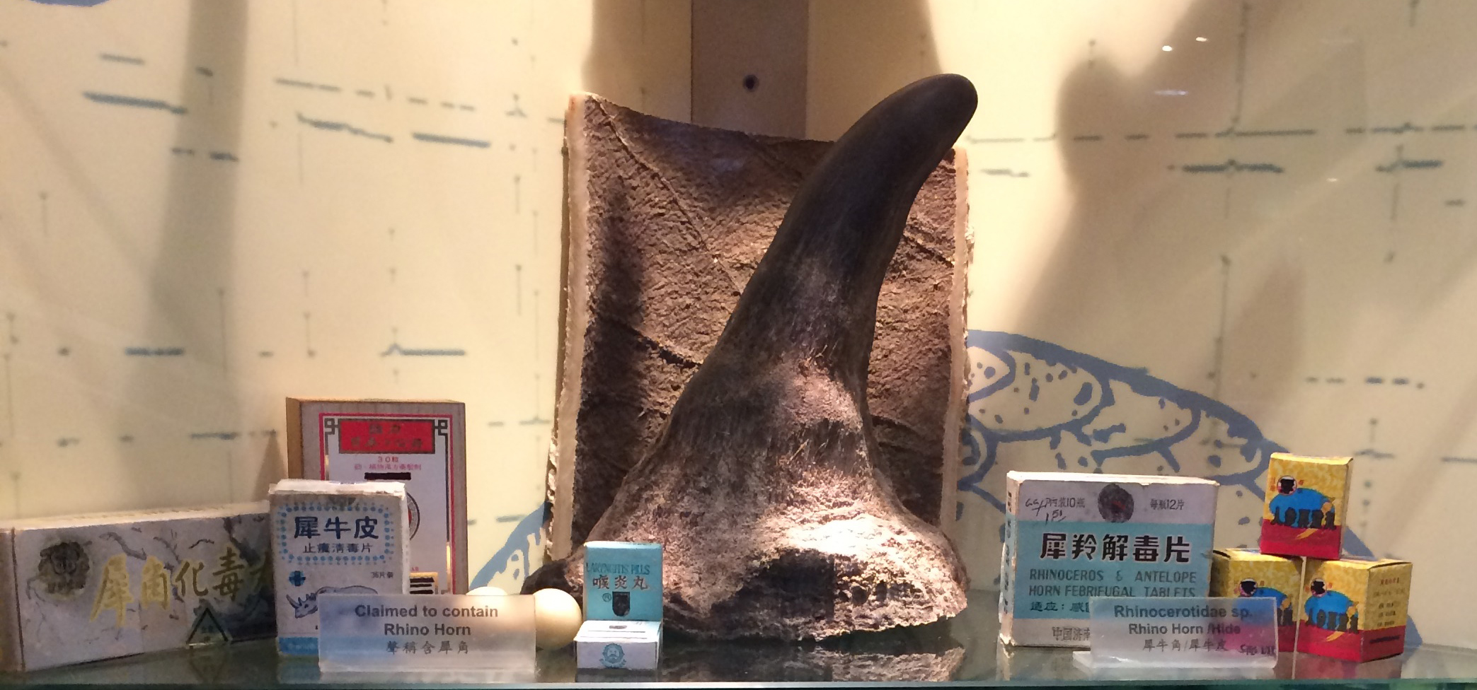 This image is related to a U.S. GAO report: Combating Wildlife Trafficking: Agencies Are Taking Action to Reduce Demand but Could Improve Collaboration in Southeast Asia